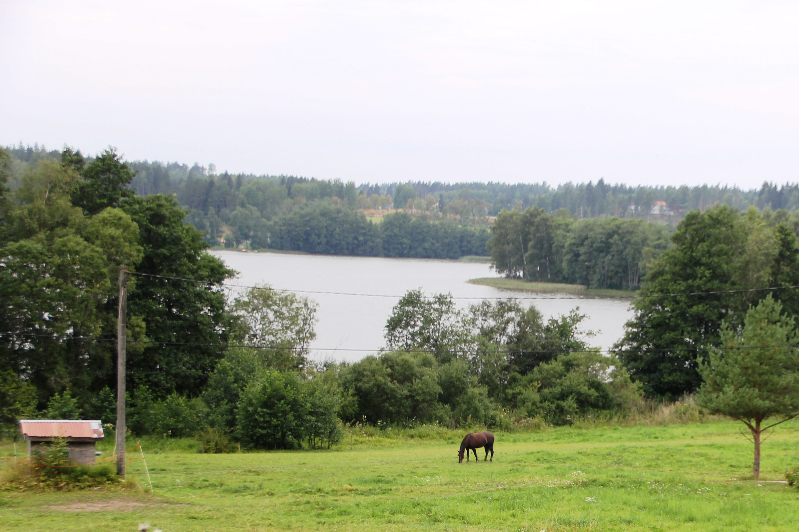 Hirsijärvi Lake, Kisko, Salo, Finland